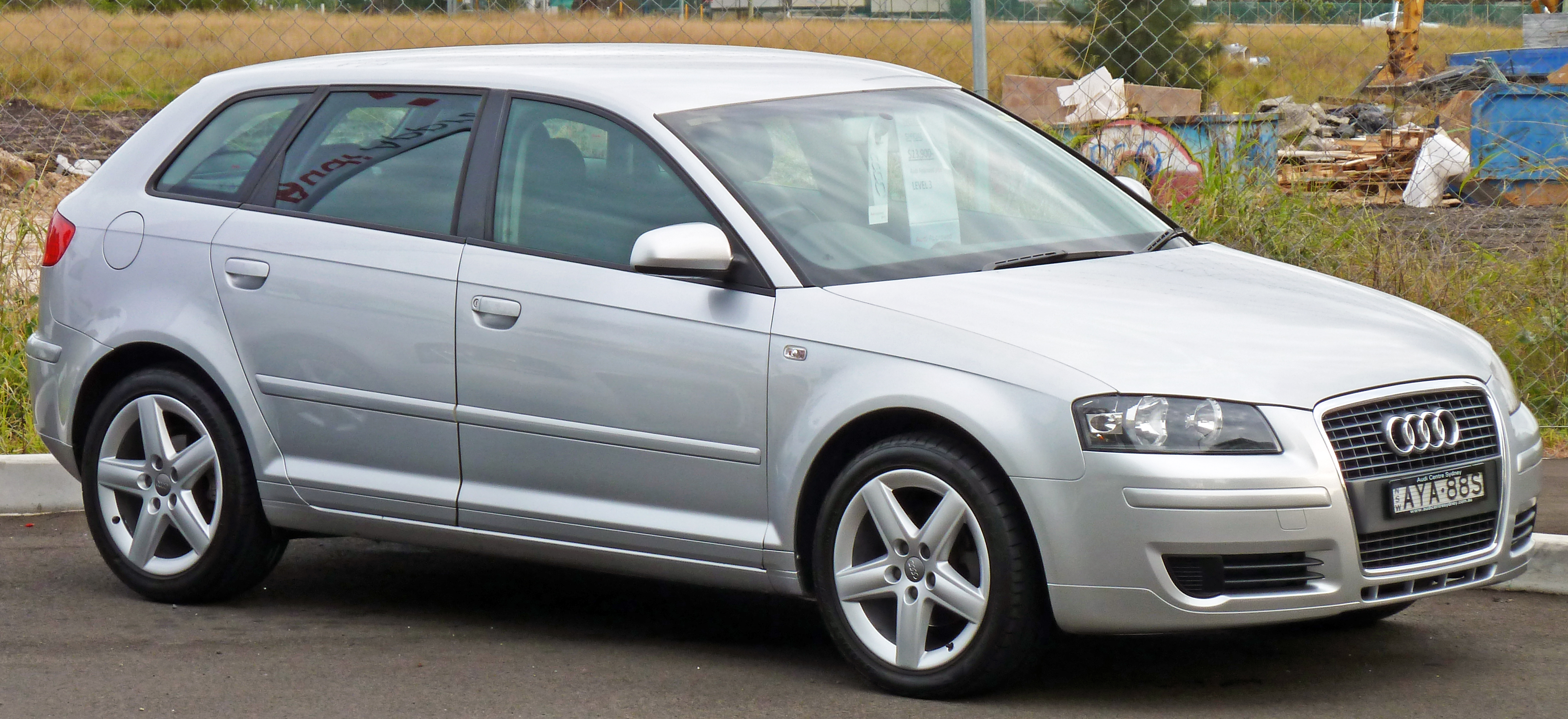 2005 Audi A3 (8PA) 1.6 Attraction 5-door Sportback. Photographed at the Audi Centre Sydney, Zetland, New South Wales, Australia.